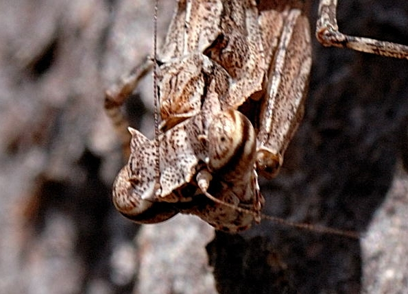 spiny bark mantis in my backyard. Australia